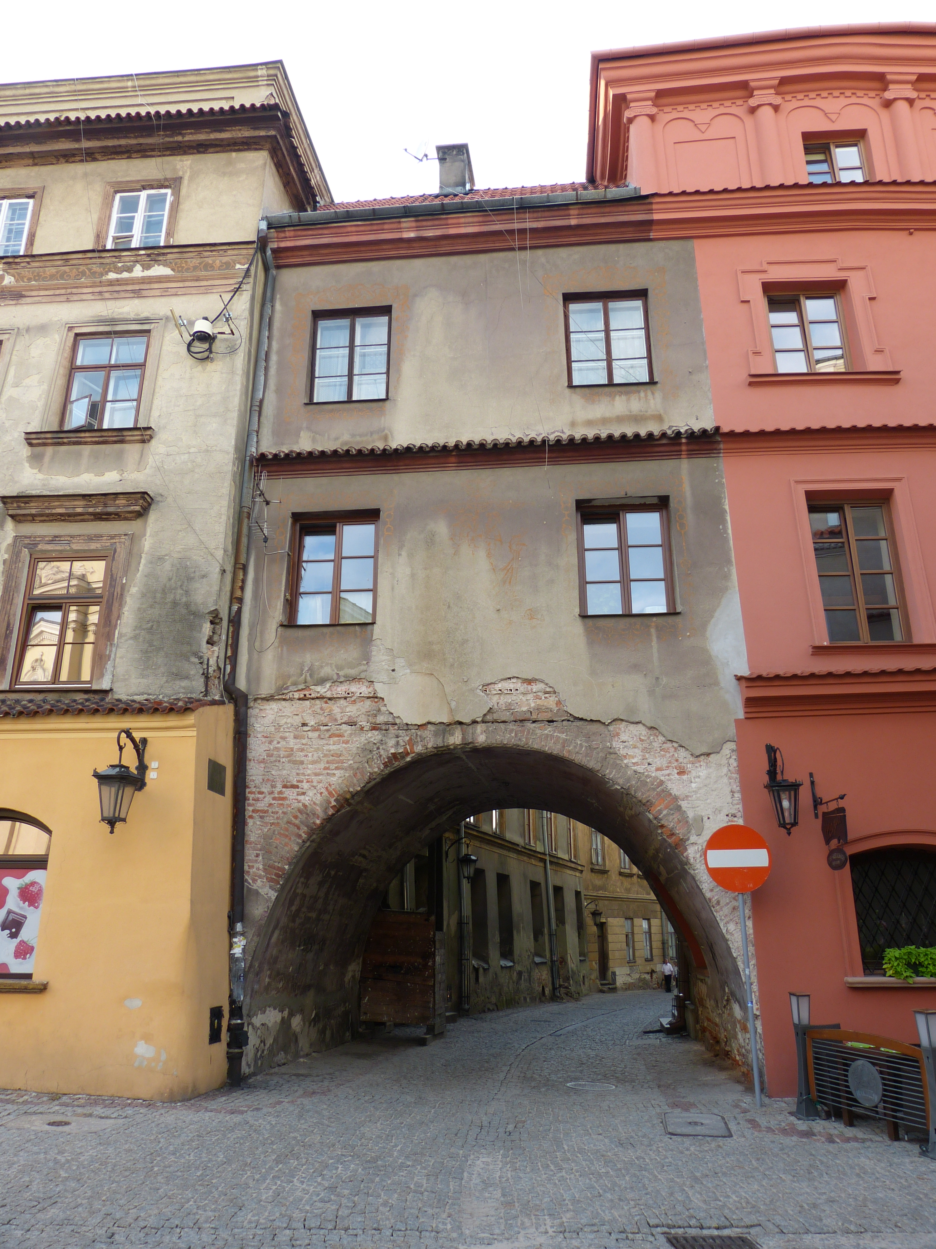 Rybna Gate, Lublin, Poland